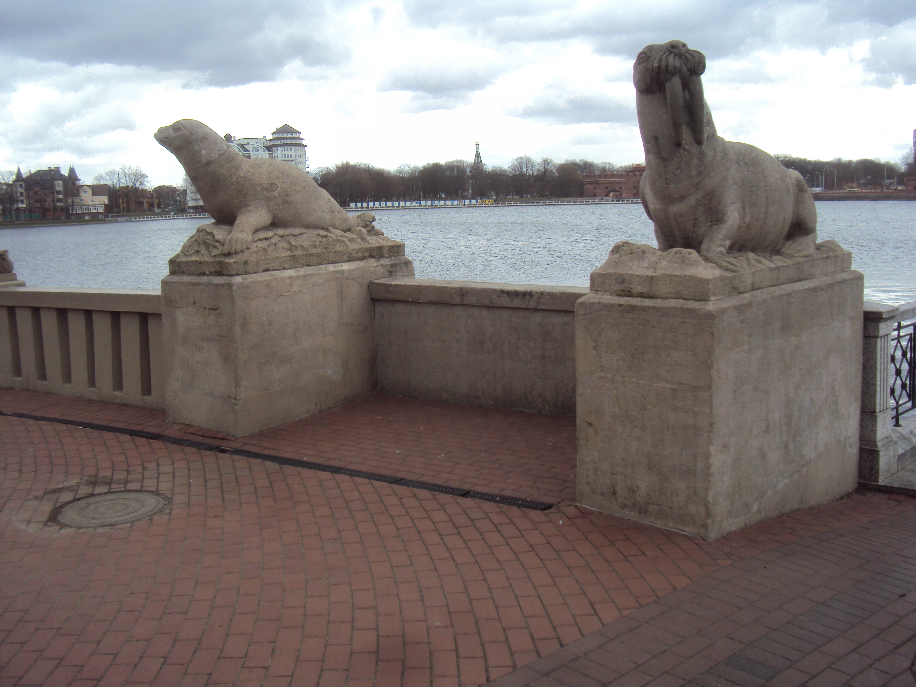 The sculptures of sea animals